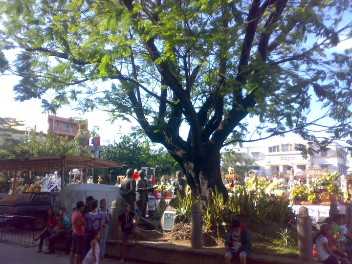 The Historic Kalayaan Tree located at the Patio of Malolos Cathedral-Basilica